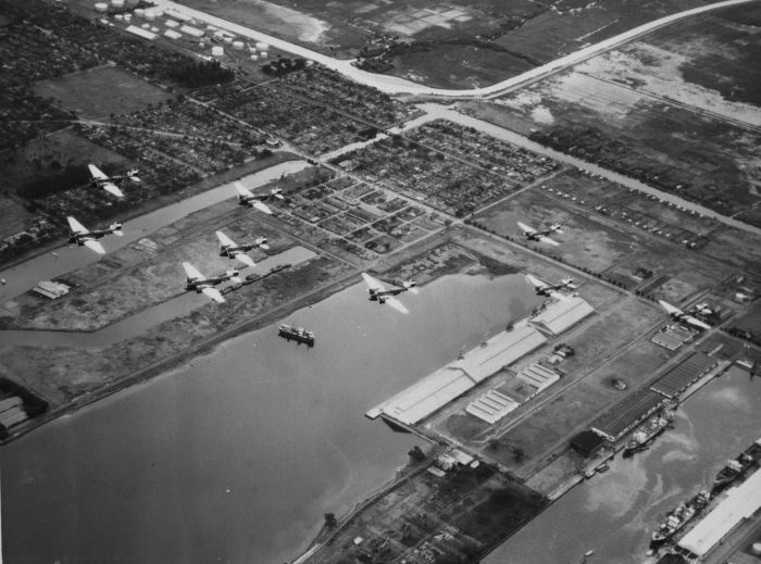 Inflight photo with Glenn Martin bombers of the Royal Netherland Indian Army (KNIL) over the harbor of Tandjong Priok on Batavia.